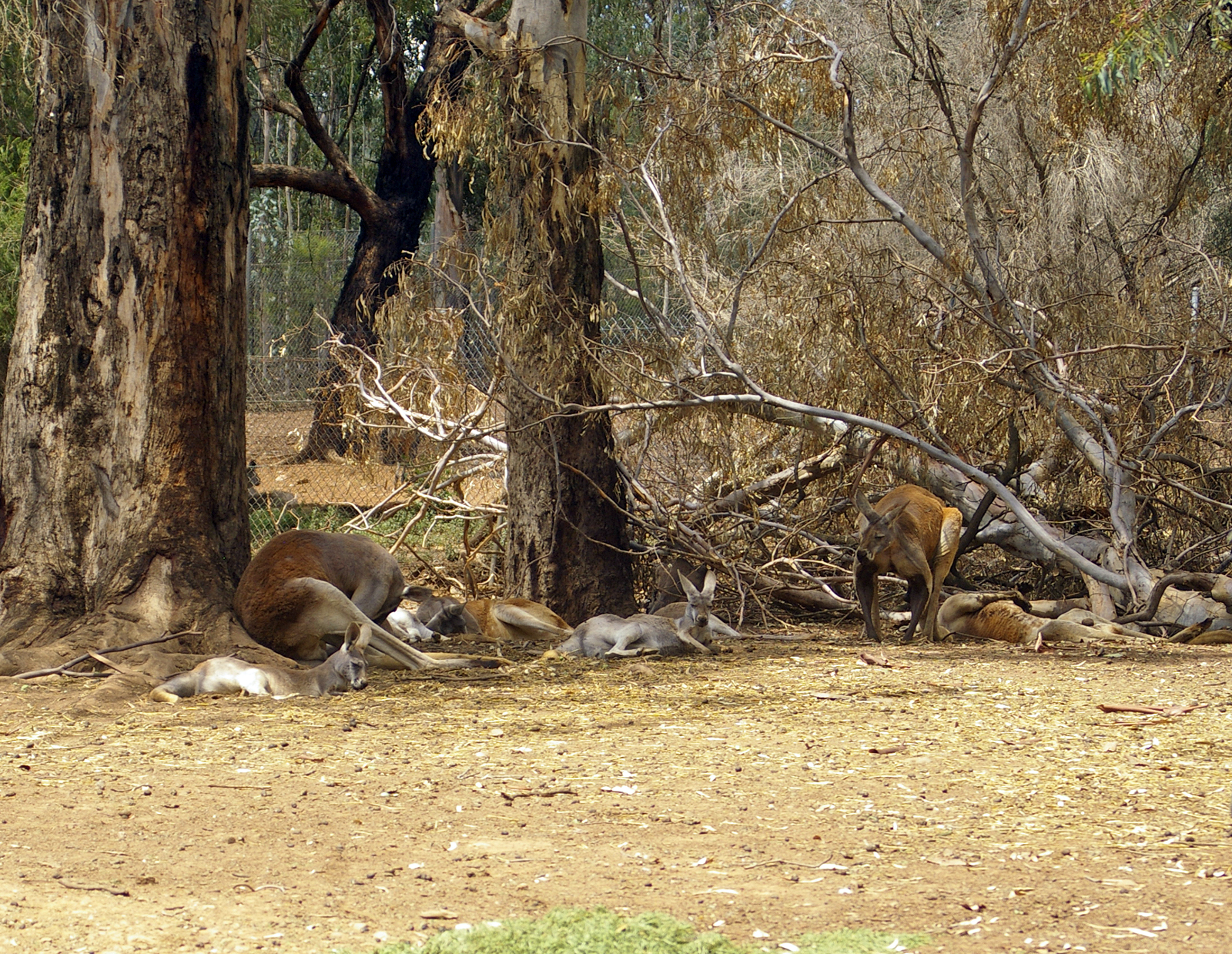 Mob of male and female Red Kangaroos (Macropus rufus) at the Wagga Wagga Botanic Gardens.